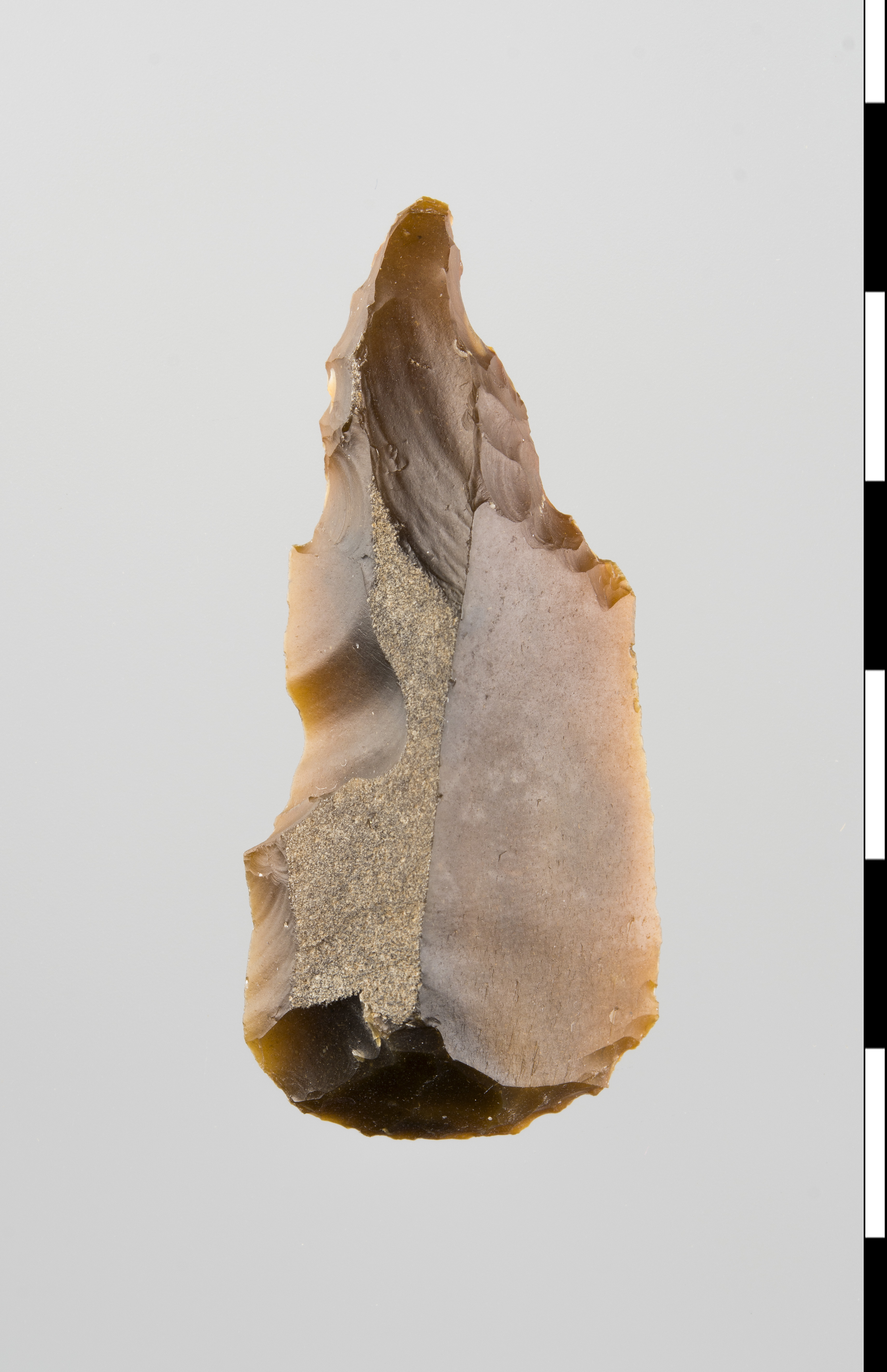 Flint combination tool, an awl and a scraper, from the Paleolithic. Hamburgculture. Found with other flint tools at Kootwijkse heide in Stroe.PDB.2014.527.164